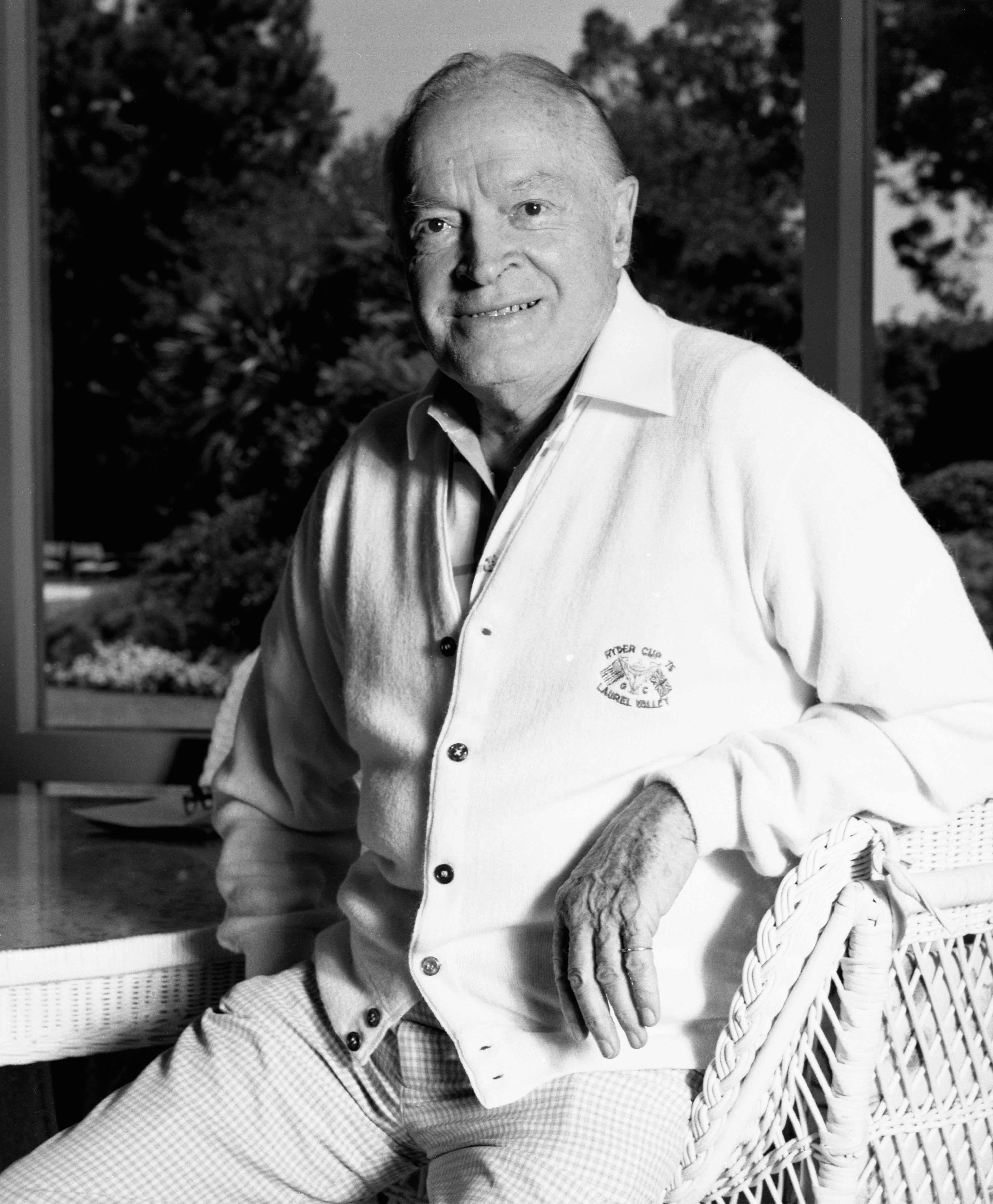 portrait of Bob Hope at home